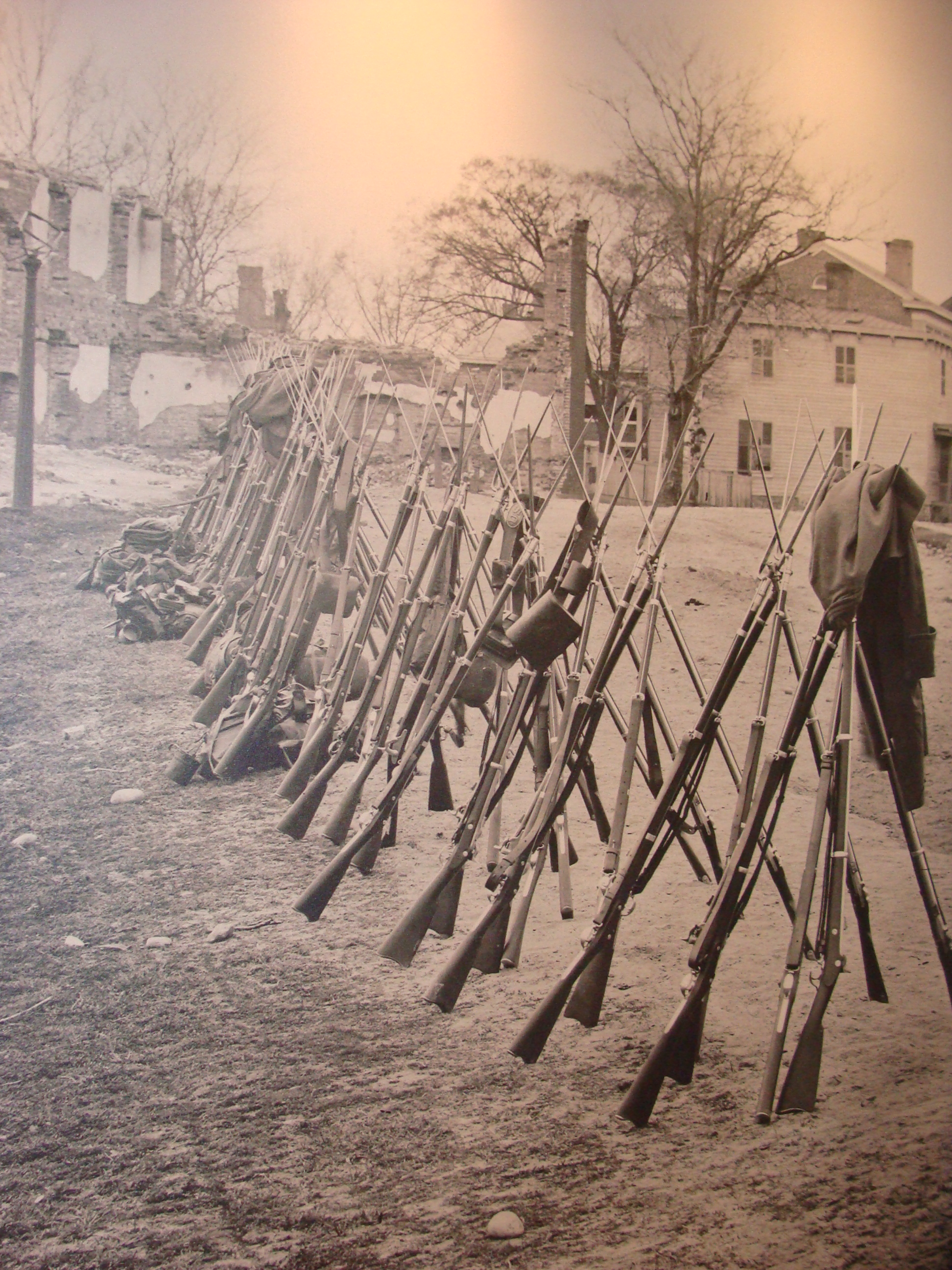 Photograph of a mural of Gettysburg circa 1865